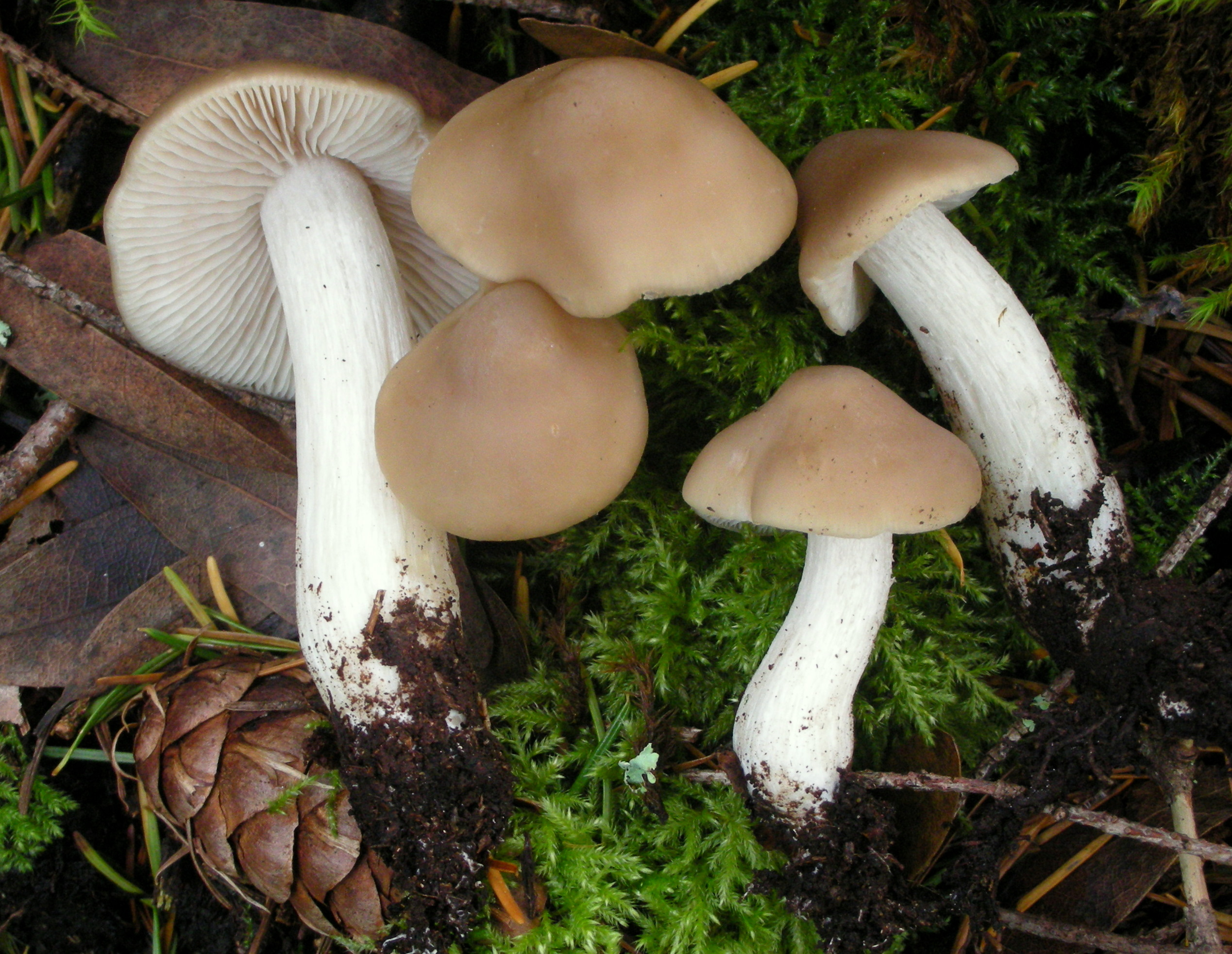 Entoloma lividoalbum (Kühner & Romagn.) Kubicka Location: Bolinas Ridge, Marin Co., California, USA Observation Notes: These fit the description for E. lividoalbum well except they are on the small side with caps only 4 cm across max.They had a slight cucumber odor.The pink spores were angular, mostly 5 sided with a large hilar appendage.Spores were ~ 8.5-9.3 X 7.0-8.0 micronsThe whitish stipe was distinctly longitudinally striate.“Entoloma rhodopolium group” could have been an alternative safer ID. For more information about this, see the observation page at Mushroom Observer.